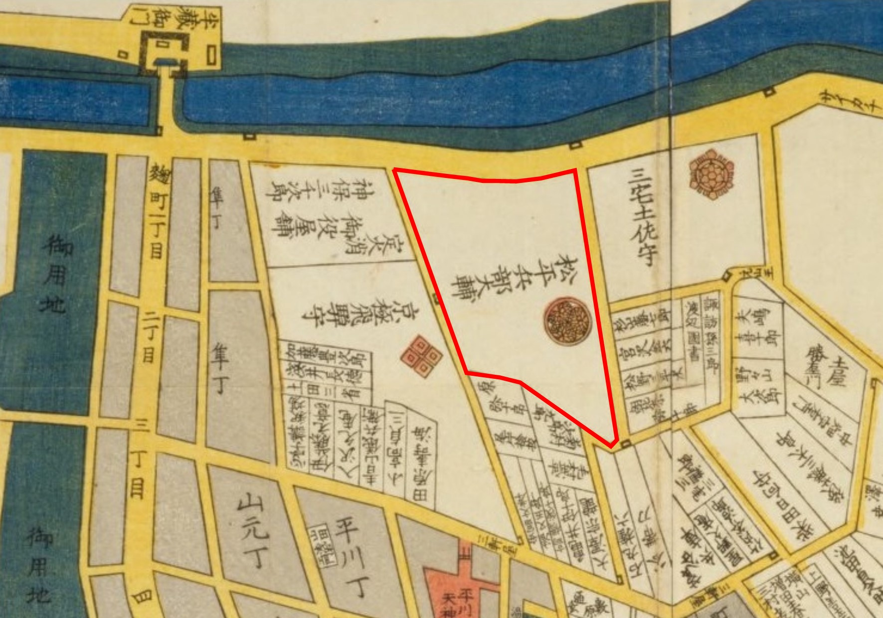 Matsudaira Akashi residence at Edo